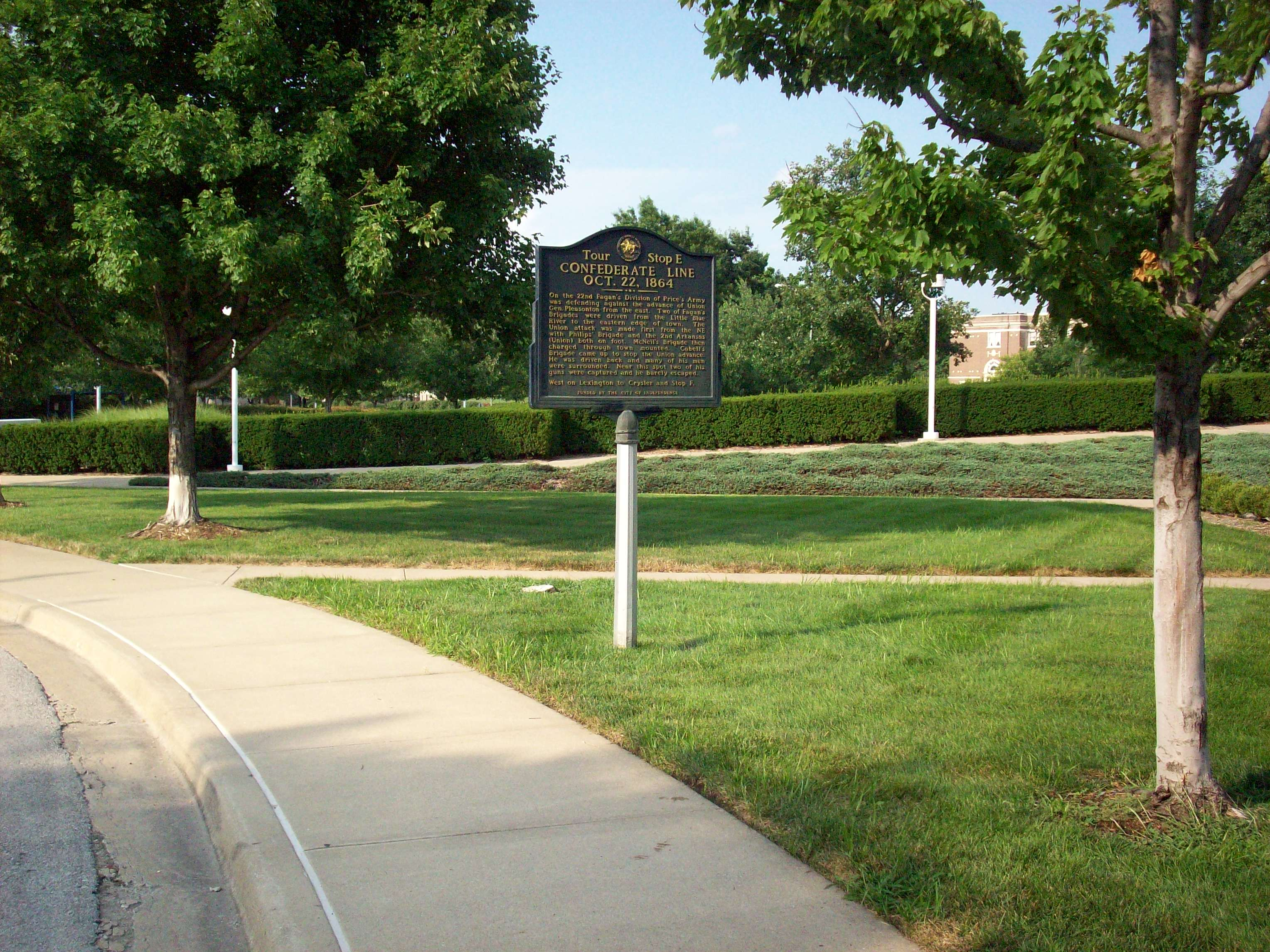 Confederate battle line during Second Battle of Independence, 1864